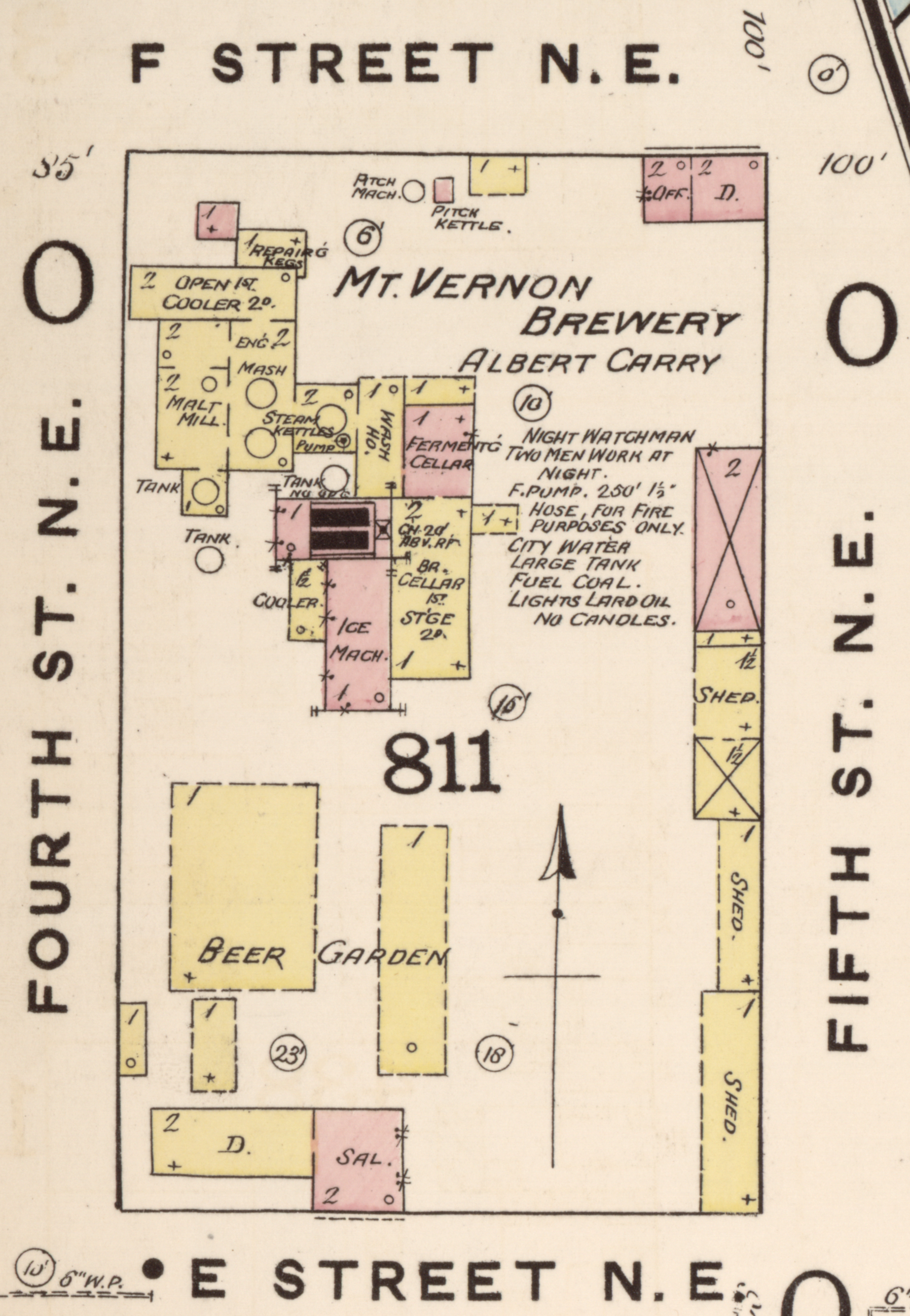 Mount Vernon Brewery Plan (Washington Brewery Company) Washington DC from the Sanborn Fire Insurance Map of 1888.